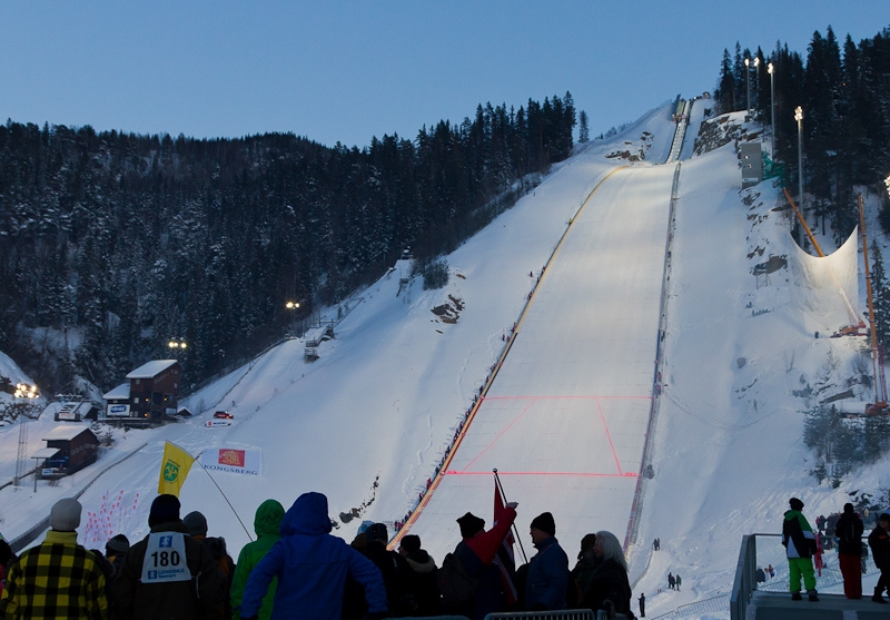 The Vikersundbakken giant jumping hill, in Vikersund, HS225